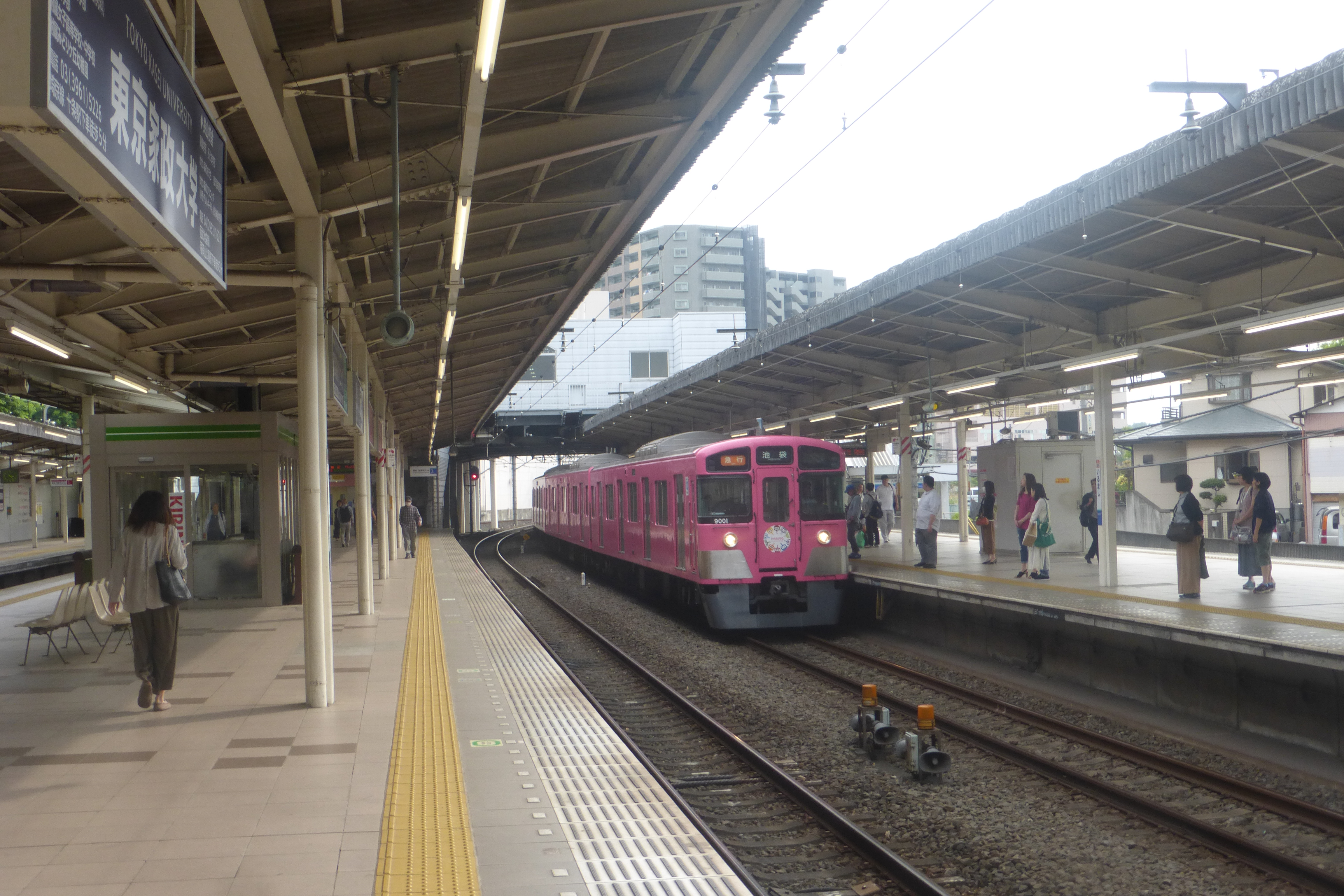 A Seibu 9000 series EMU (in special "Seibu KPP Train" livery) arriving at Irumashi Station in Saitama Prefecture, Japan